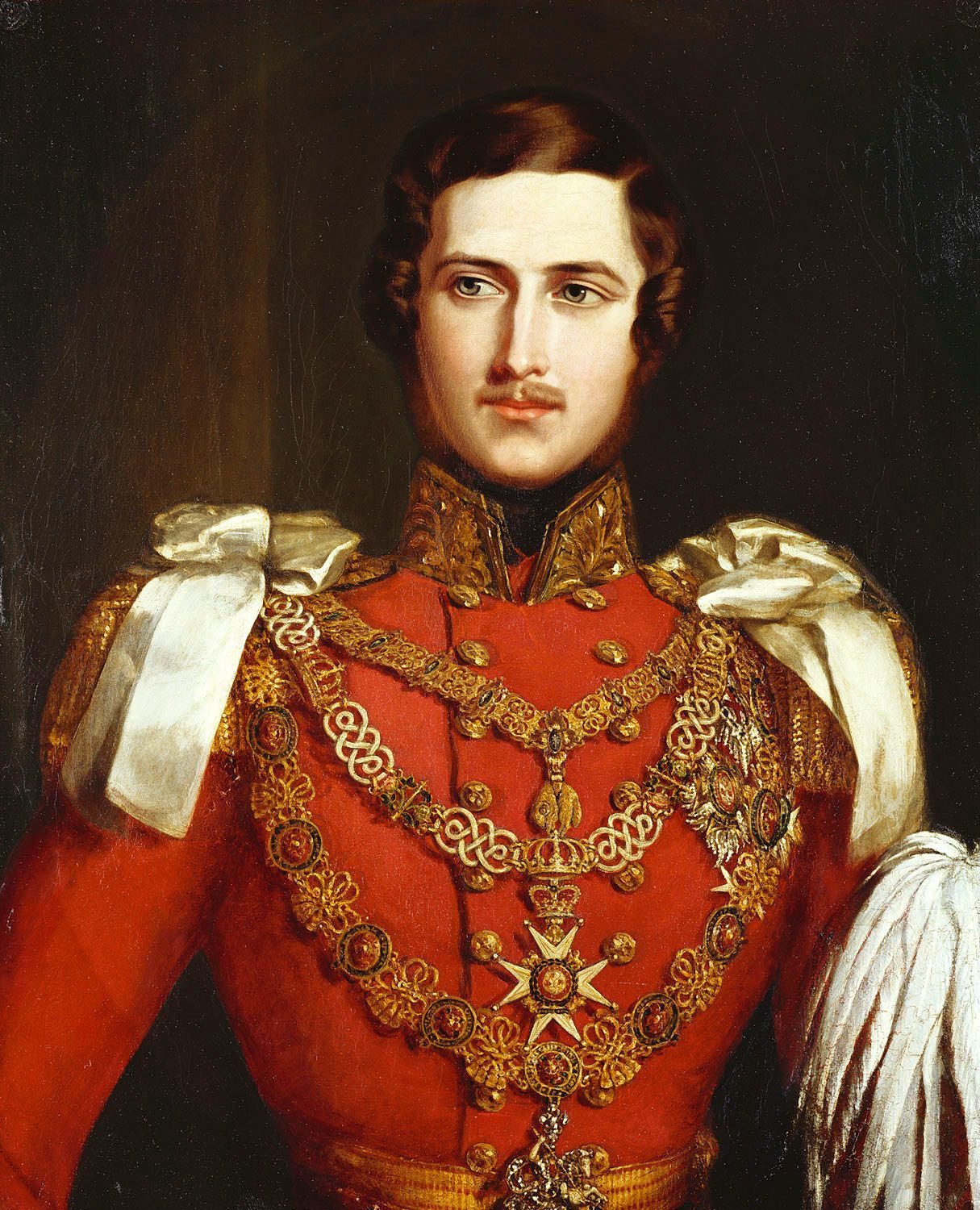 Painted for Queen Victoria. Portrait of Prince Albert; the three chains are (from top to bottom) the collars of the orders of the Golden Fleece, Bath and Garter.